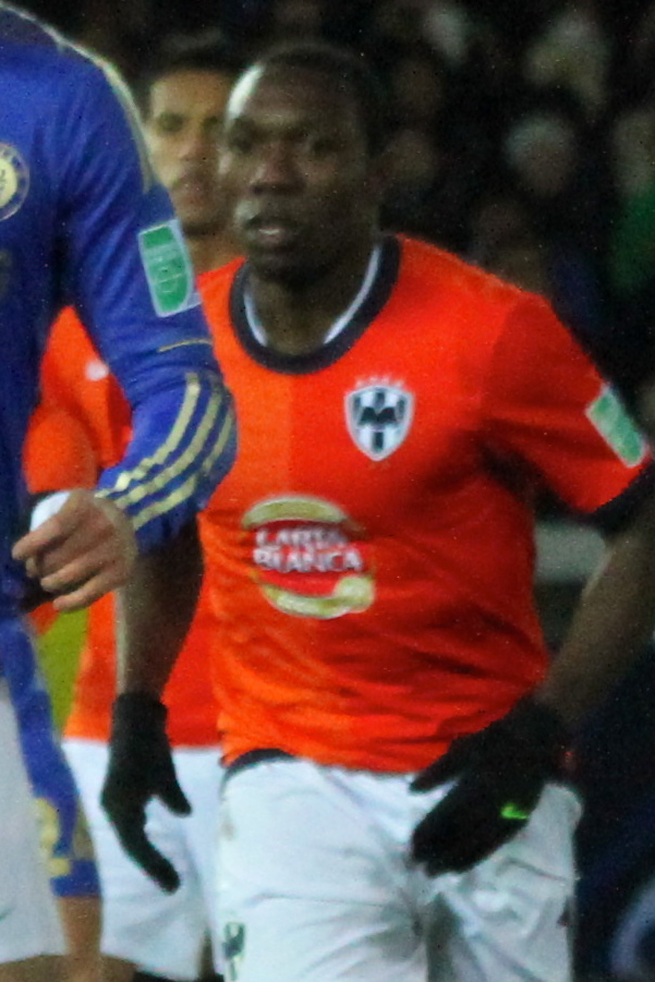 Walter Ayoví playing for CF Monterrey